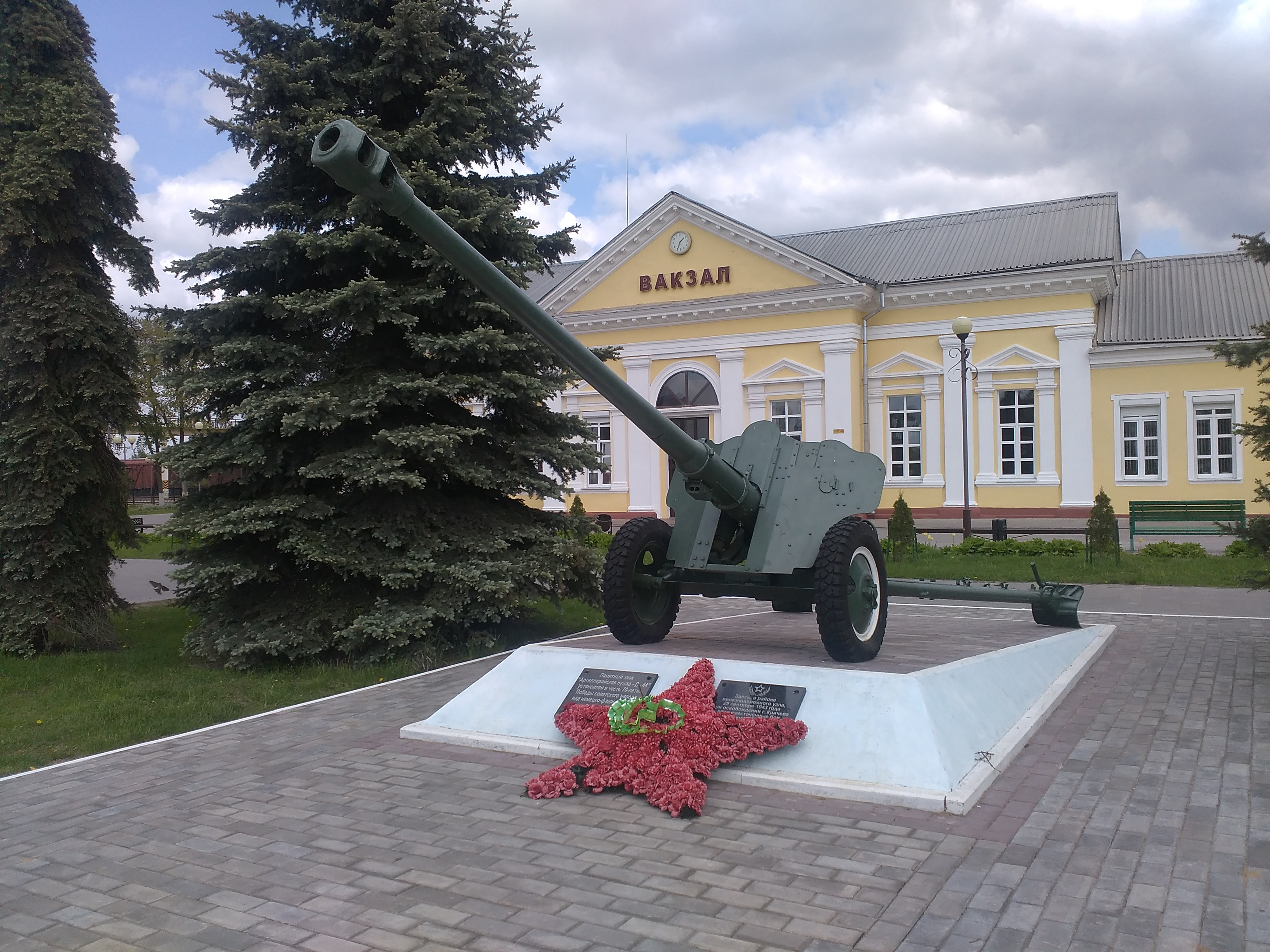 85 mm divisional gun D-44 in Krichev next to the building of the railway station